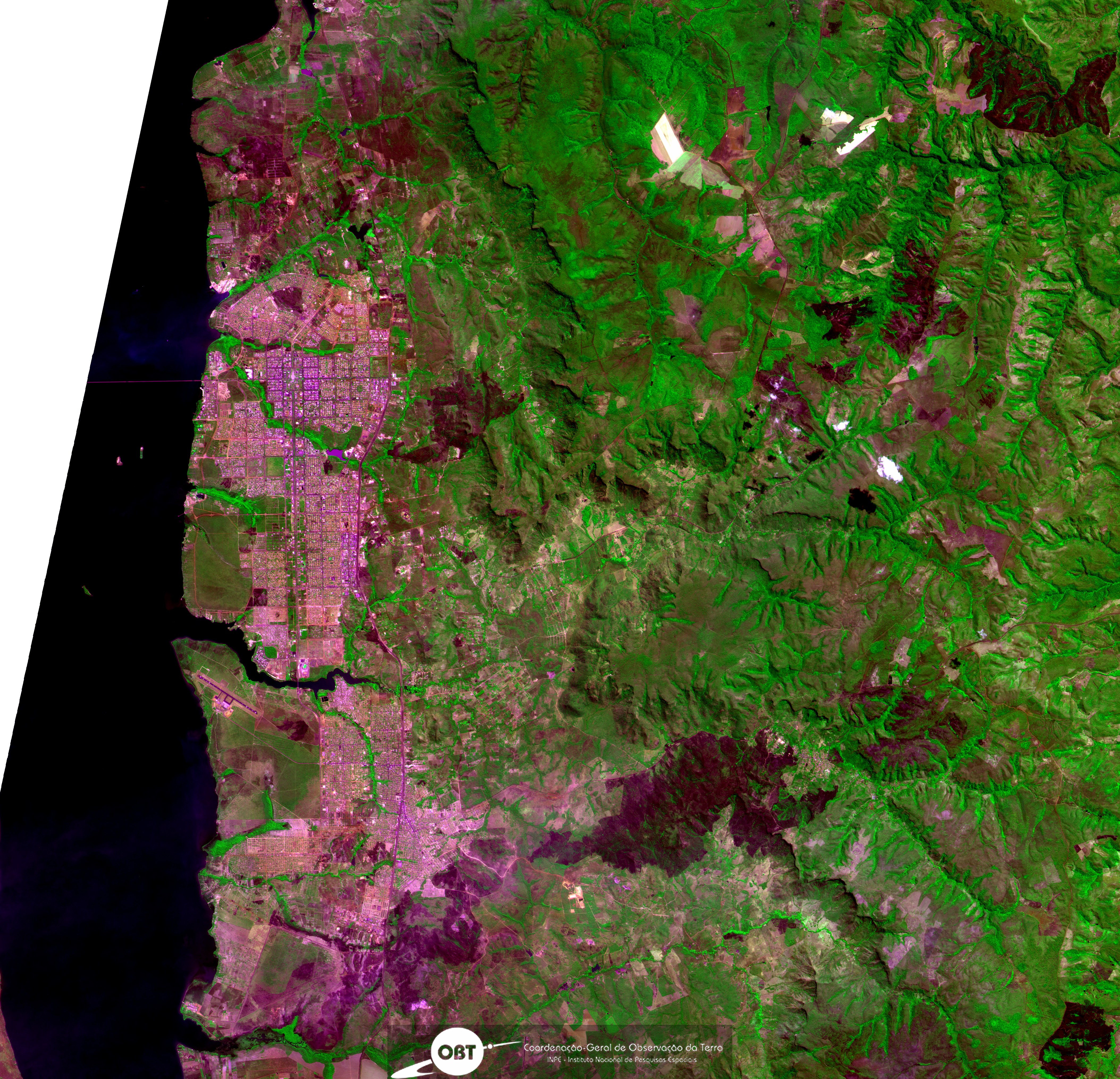 Satélite / Satellite: CBERS-4 Sensor: PAN 10m Data / Date: 16-08-2016 / 08-16-2016 Bandas / Bands: R3-G4-B2 Onde / Where: Palmas, Capital Tocantins / Palmas, Capital City of Tocantins Cena / Scene: CBERS-4 159/111, 159/112 Acesso à imagem / Image access (TIFF - 49 Mb)